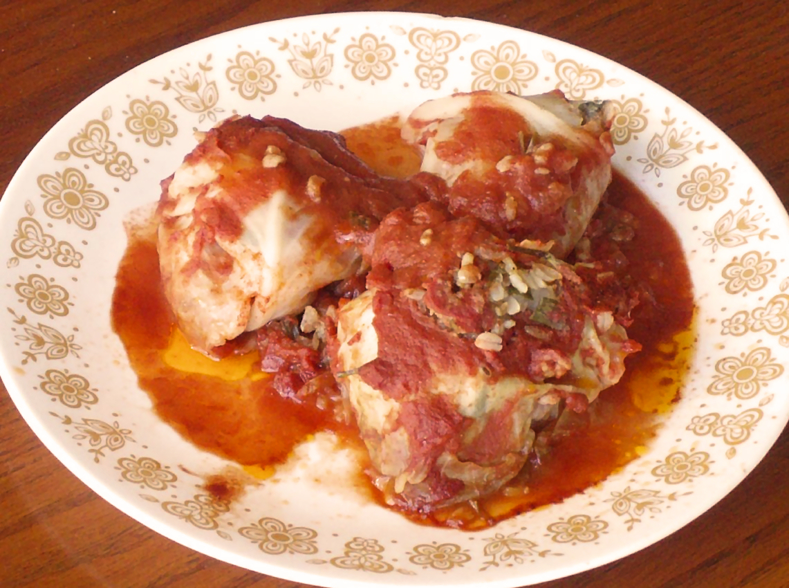 Holishkes or Cabbage rolls covered with tomato sauce.